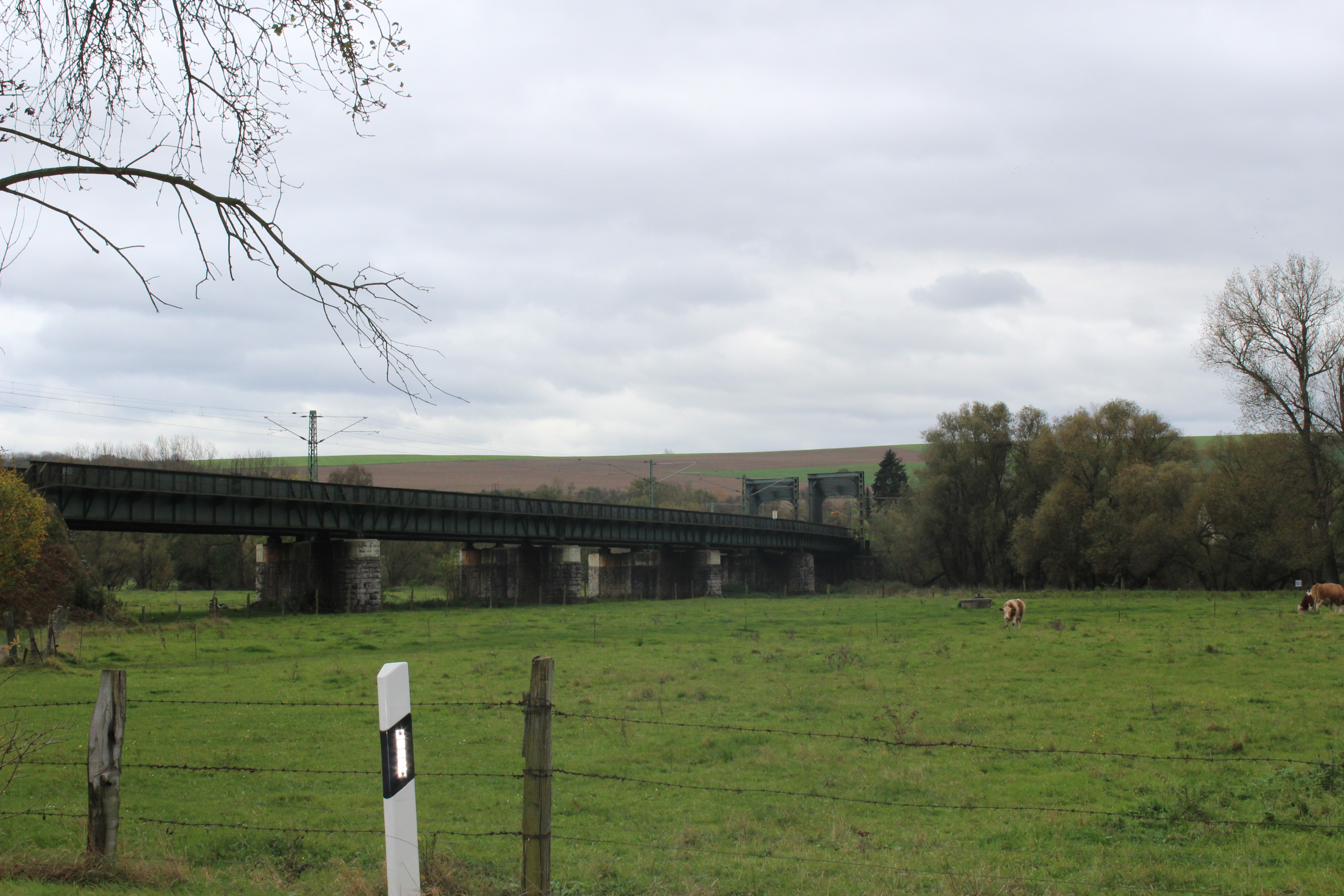 railway bridge on connection line Saaleck-Großheringen